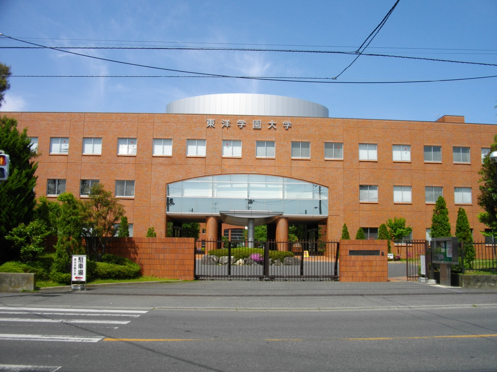 Toyo Gakuen University Nagareyama Campus